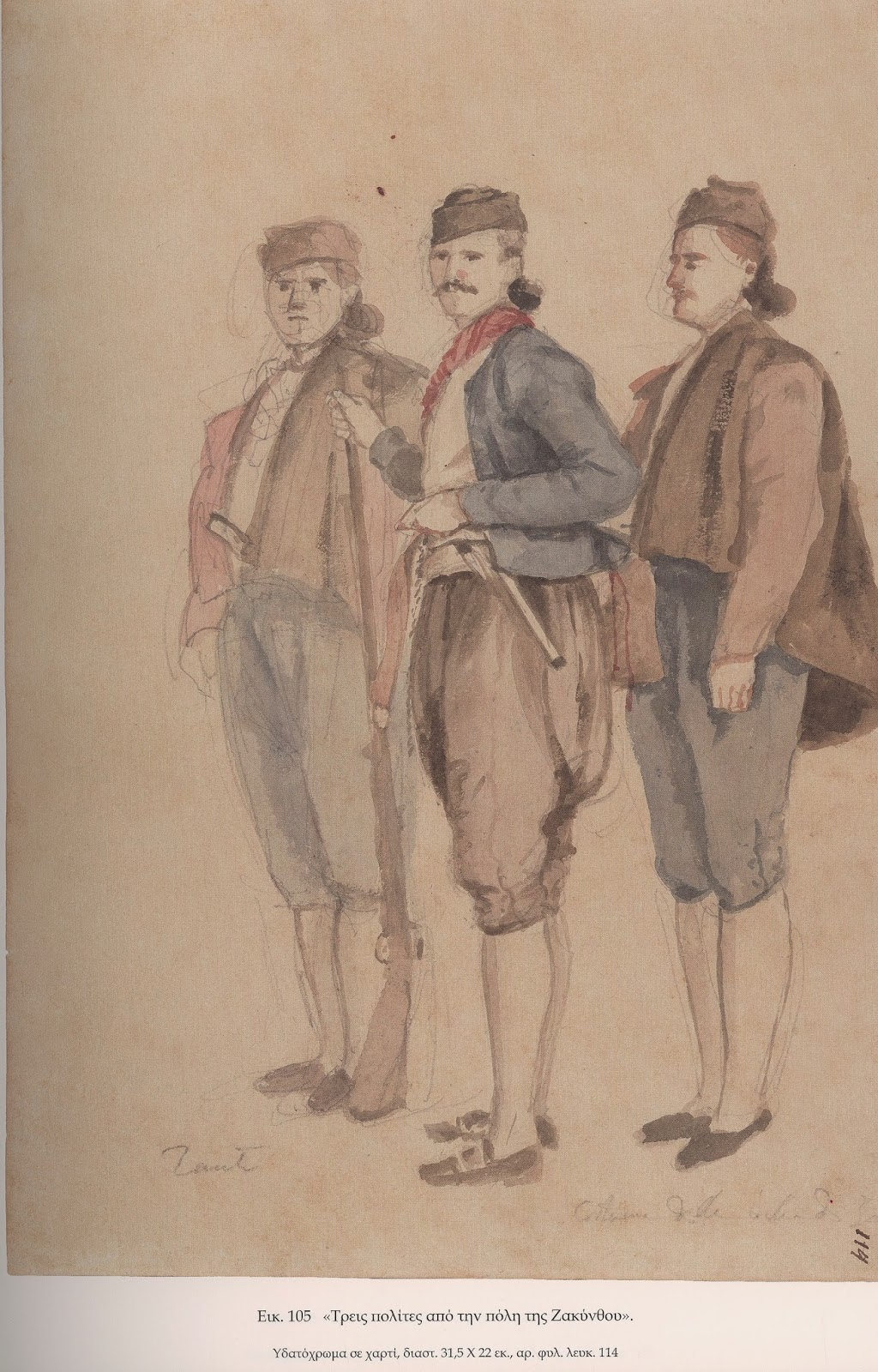 Three Cittadini or Popolari from Zakynthos town